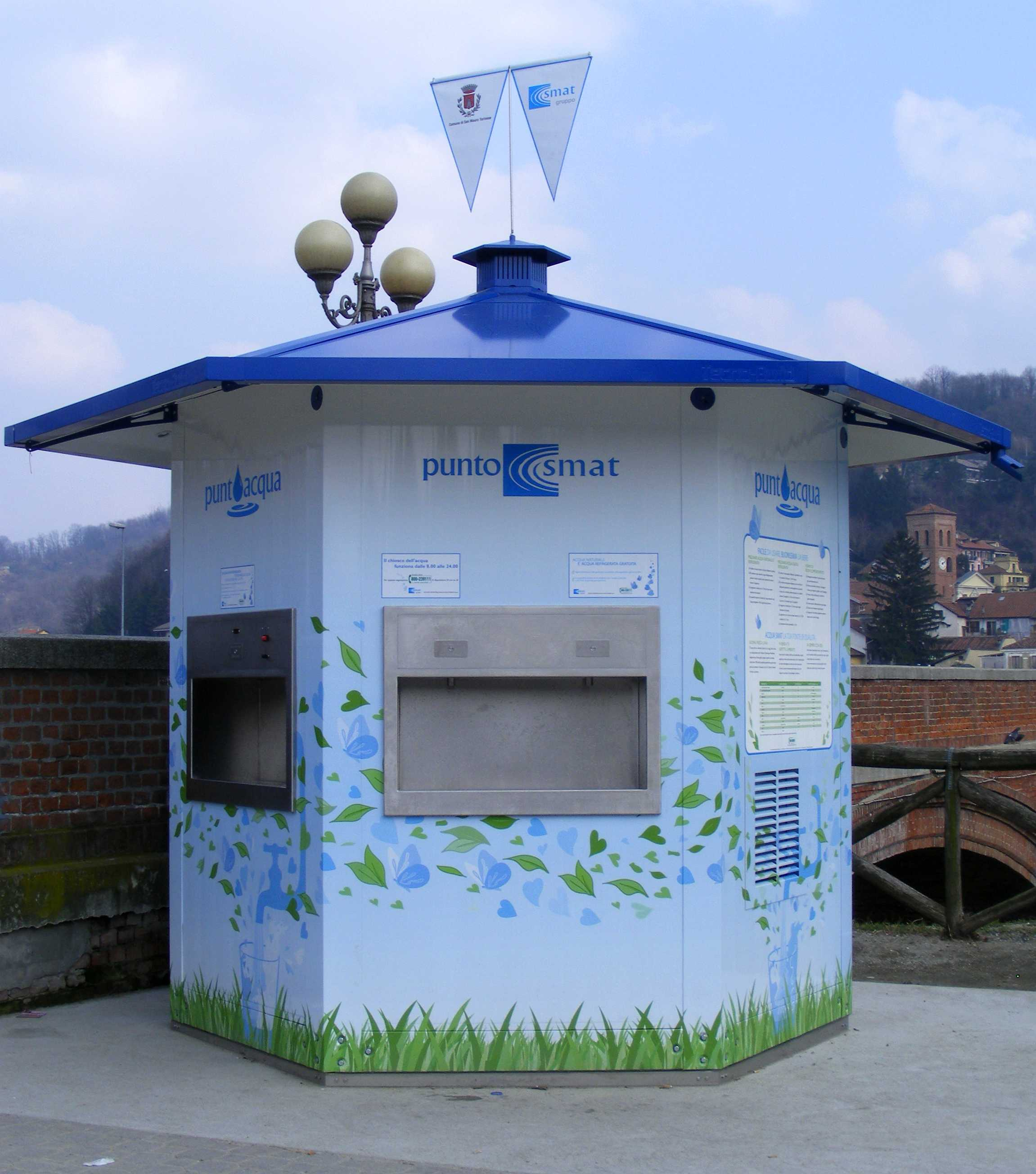 Water point (pubblic dispenser of still and sparkling water) in San Mauro Torinese (TO, Italy)